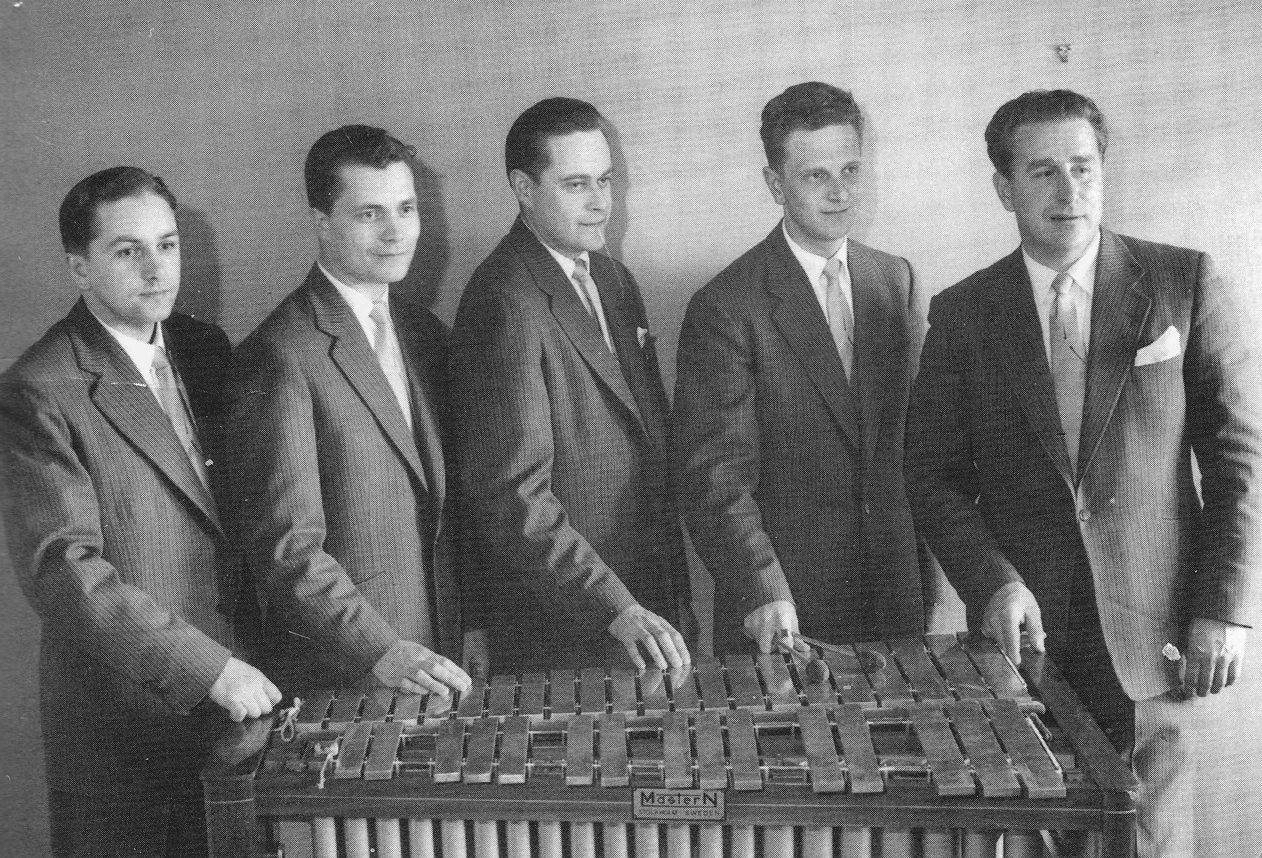 Veikko Tuomis group years 1950-1959